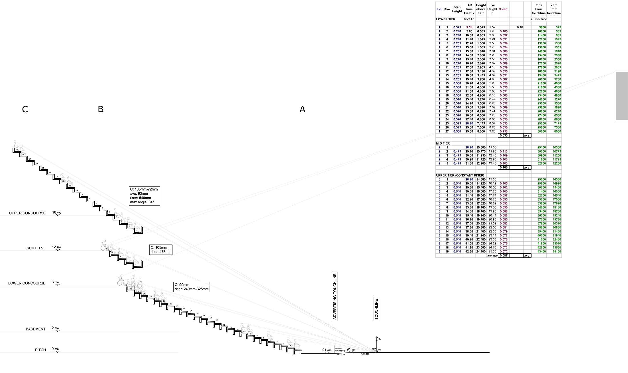 Architectural section of Mbombela Stadium indicating the seating and sightines in section and in table form.